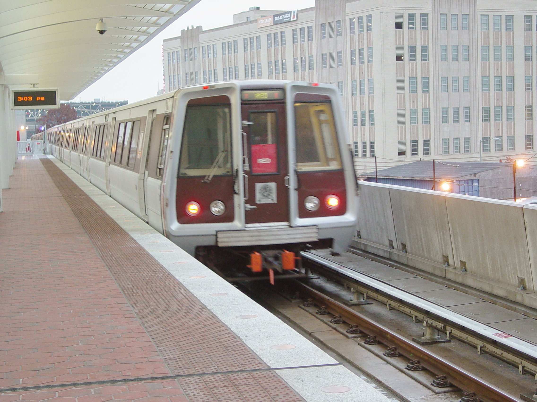 New York Avenue Metro station